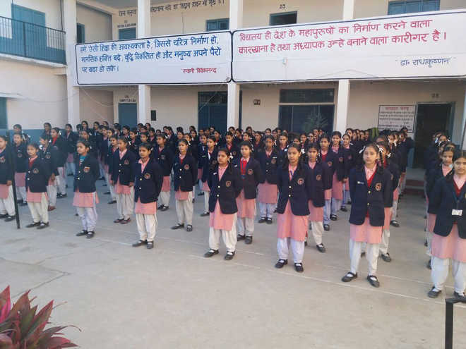 Elementary Girl Students in Morning Assembly of the schol.